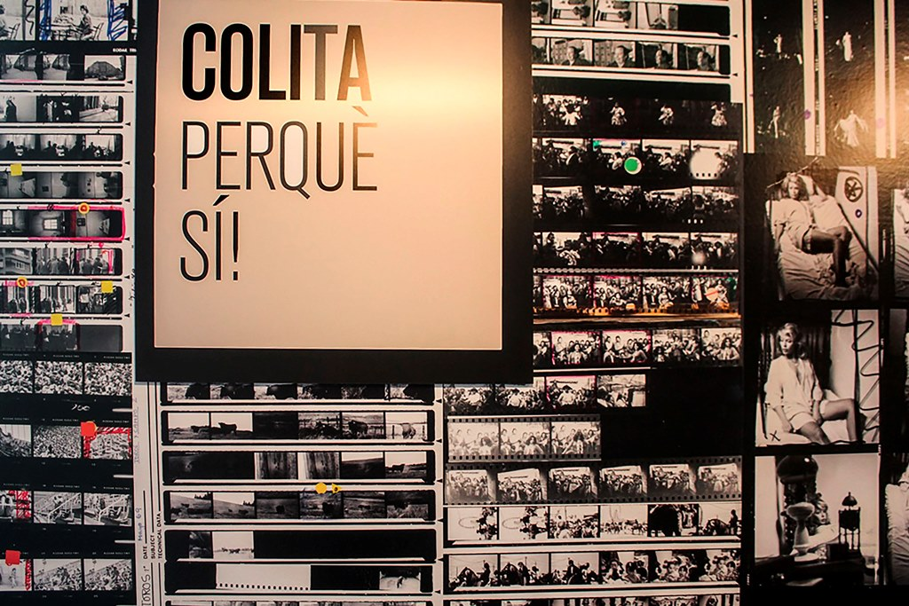 Colita Perque si